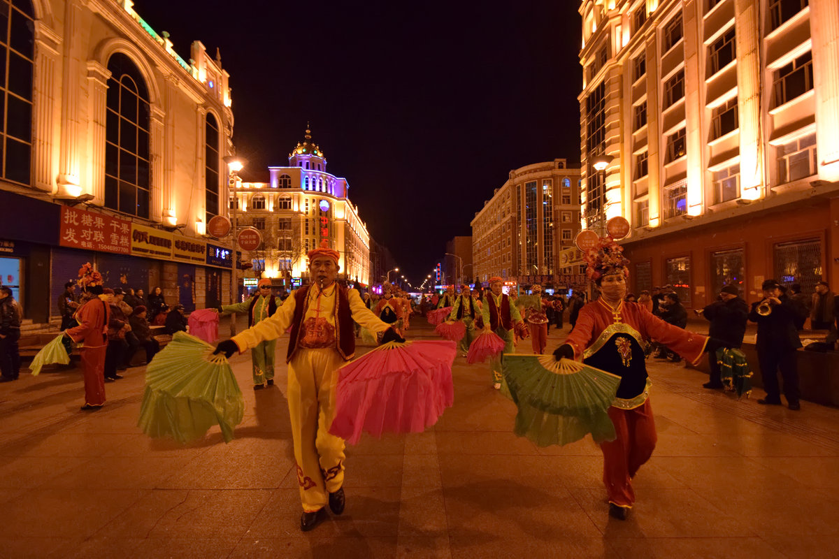 Heihe people perform dance along Central Street every night. (Author had the verbal consent from performers when taking this photograph.)